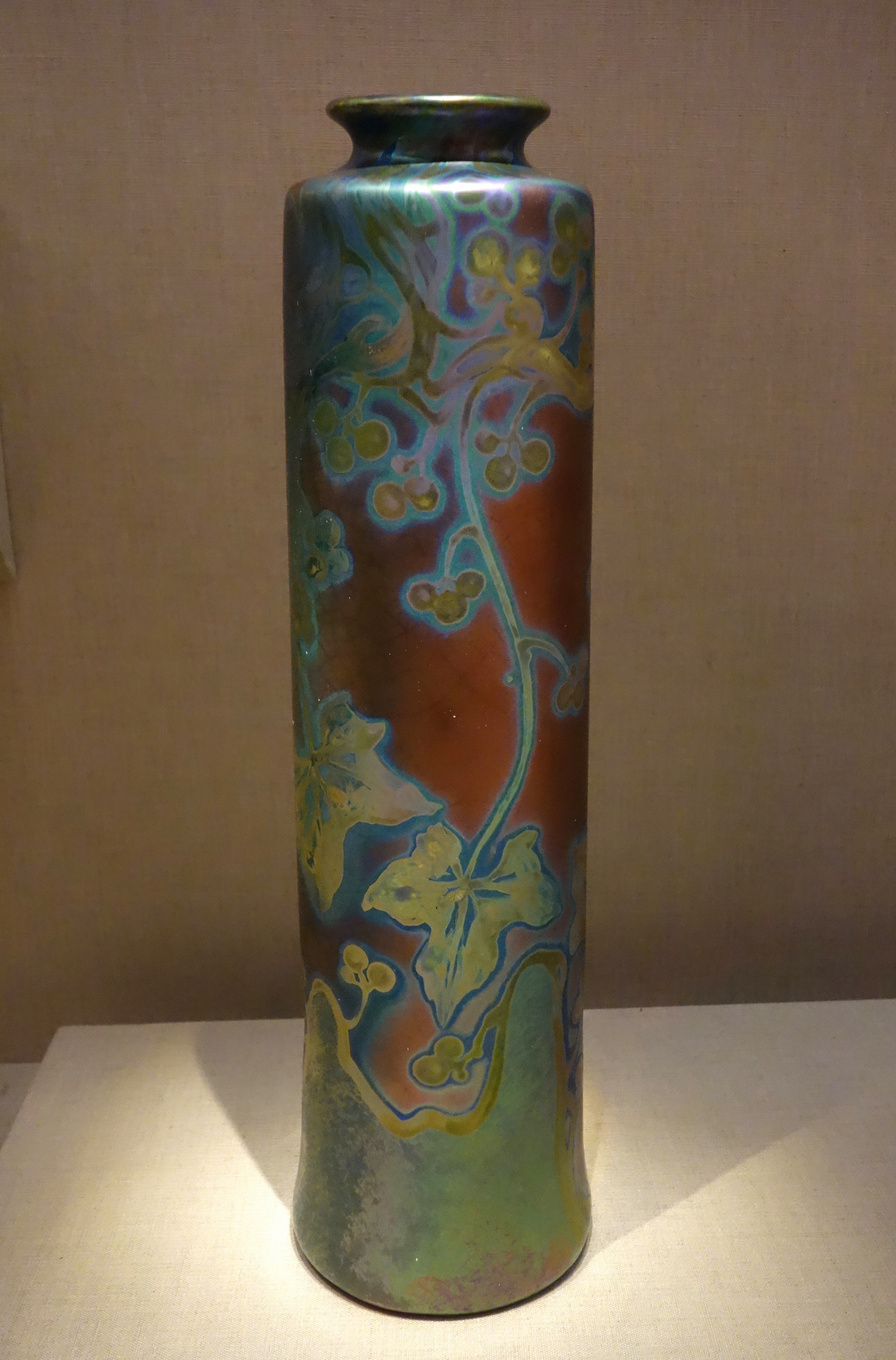 Exhibit in the De Young Museum, San Francisco, California, USA. This artwork is in the public domain because the artist died more than 70 years ago.